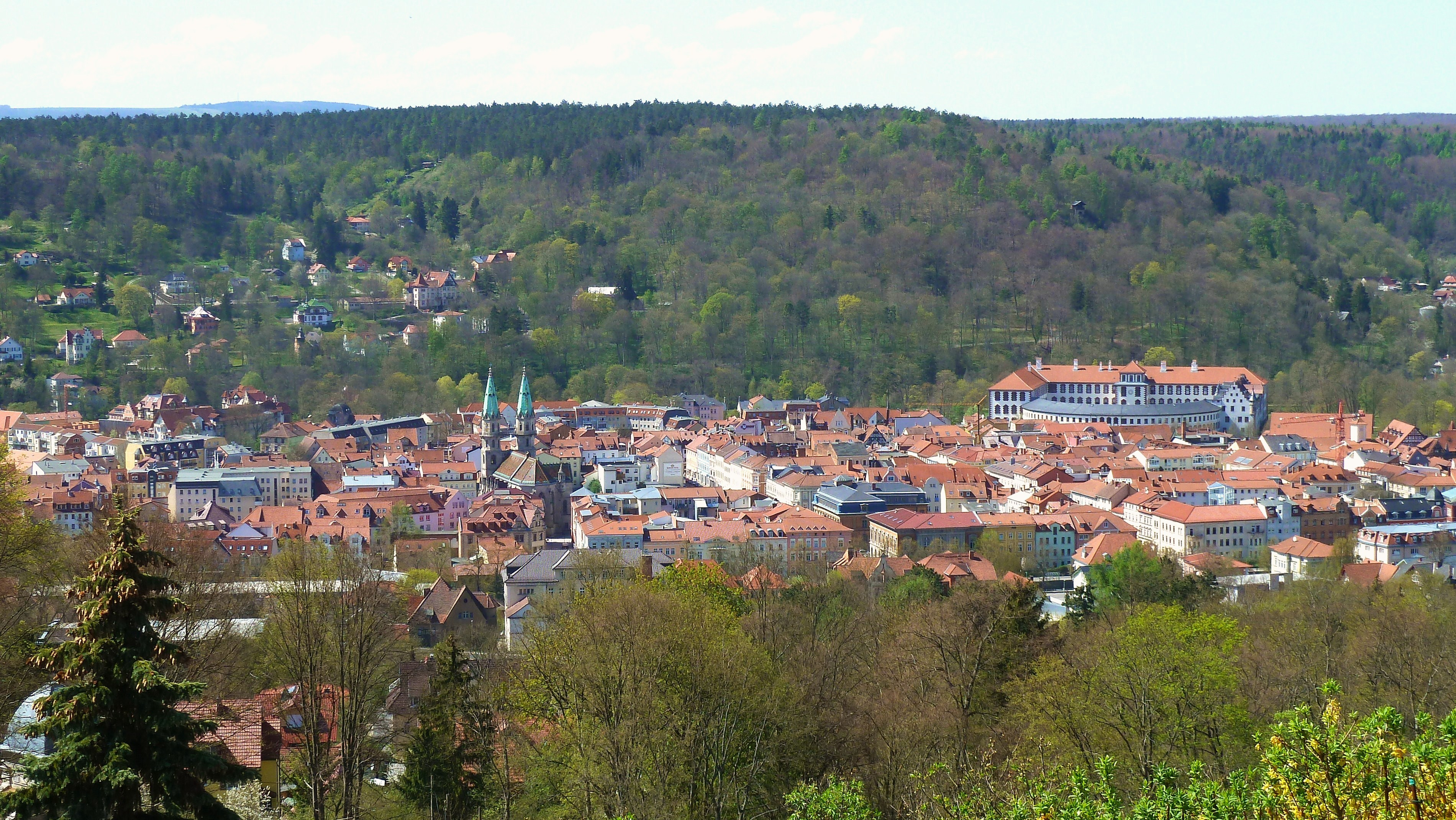 Historic old town of City Meiningen with City Church and Castle Elisabethenburg